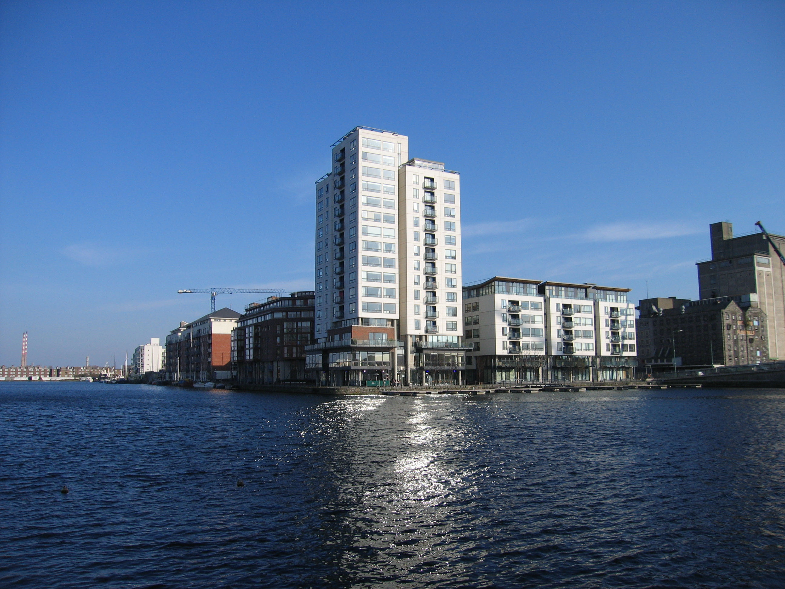 The Docks with Millennium Tower and Bolands Mill